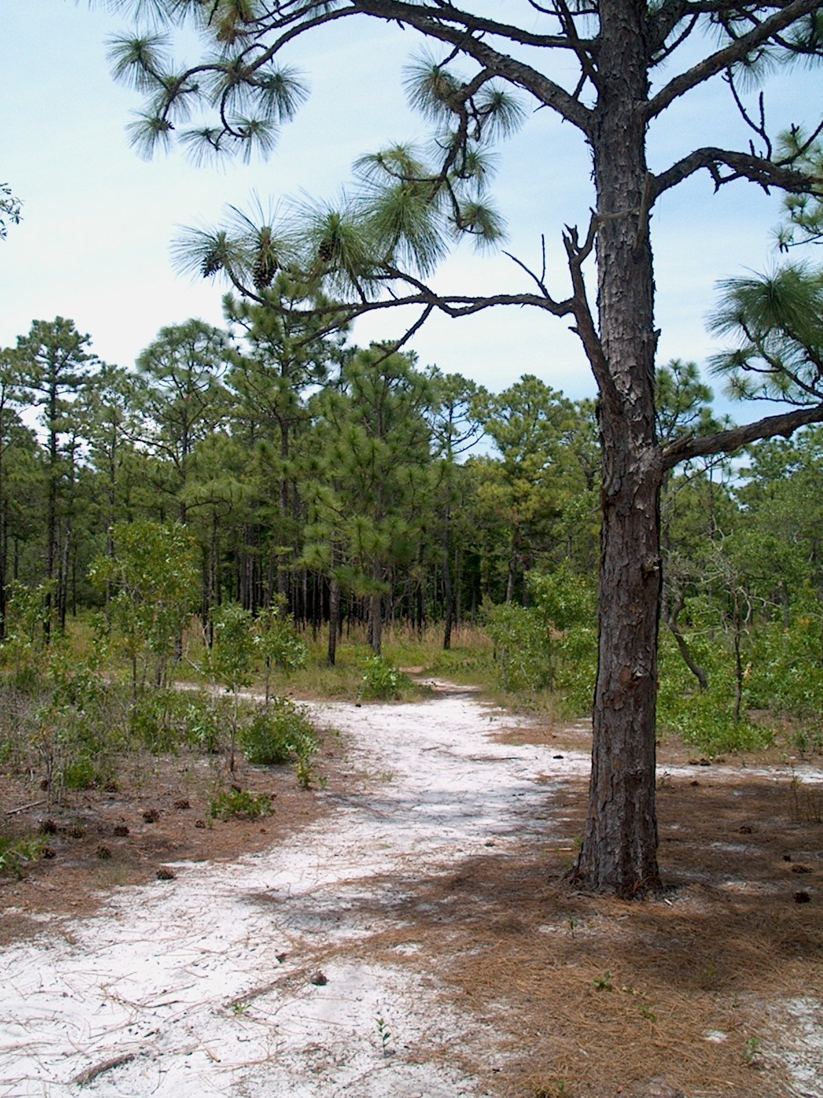 A sandy trail at ' — passing through Loblolly Pines (Pinus taeda) woodlands. Located in New Hanover County, far southeastern North Carolina.